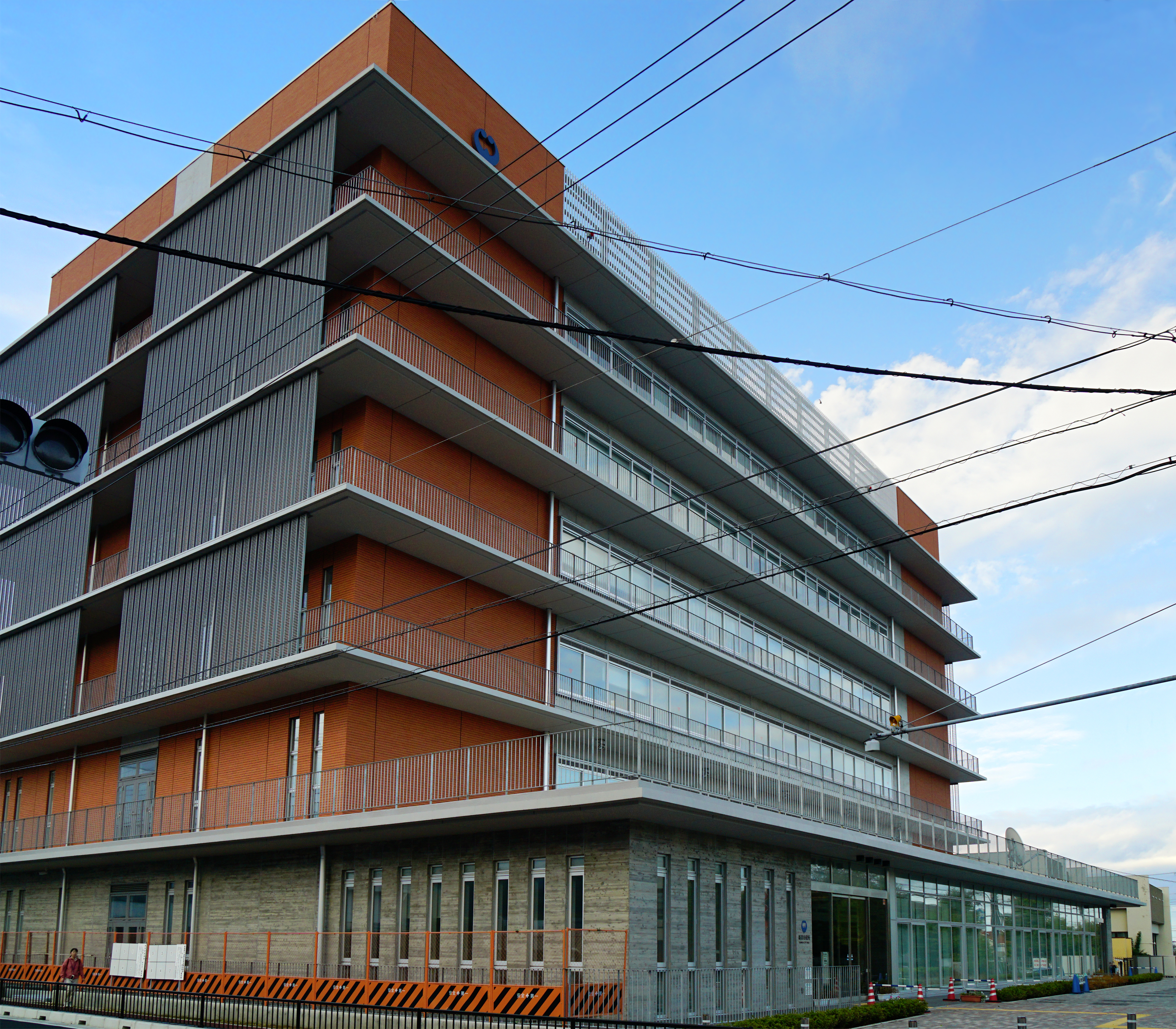 Shingu_City_Hall in Shingū, Wakayama prefecture, Japan